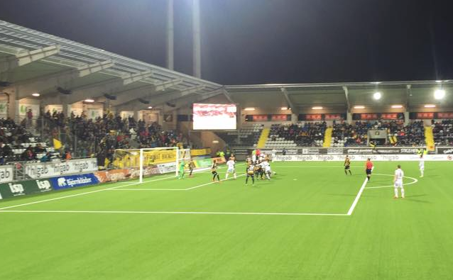 Bravida Arena association football stadium in Gothenburg, Sweden during the BK Häcken-Halmstads BK (3–1) Fotbollsallsvenskan game on 19 October 2015.